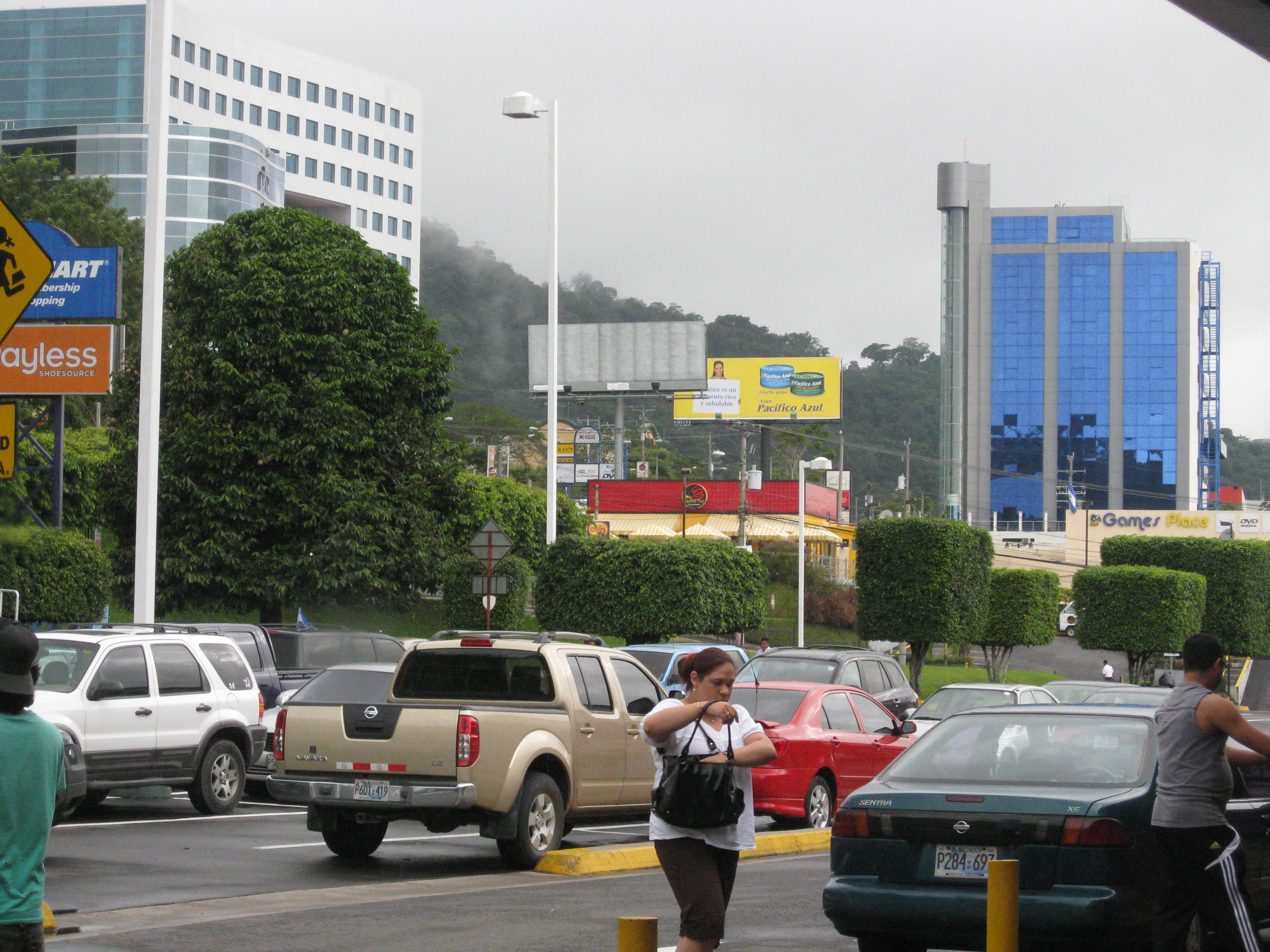 Santa Elena Skyline